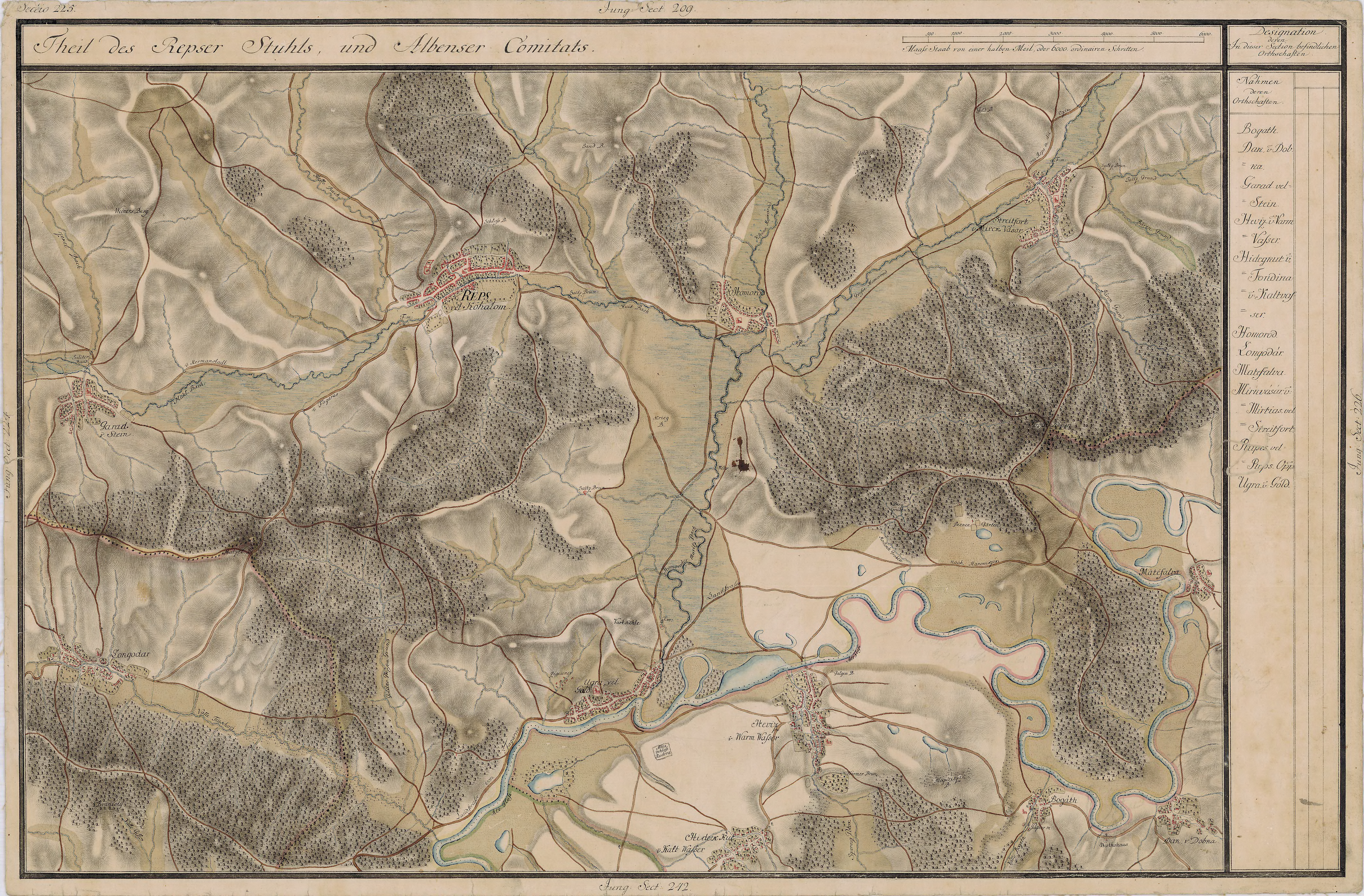 Grand Duchy of Transylvania, 1769-1773. Josephinische Landaufnahme pg.225